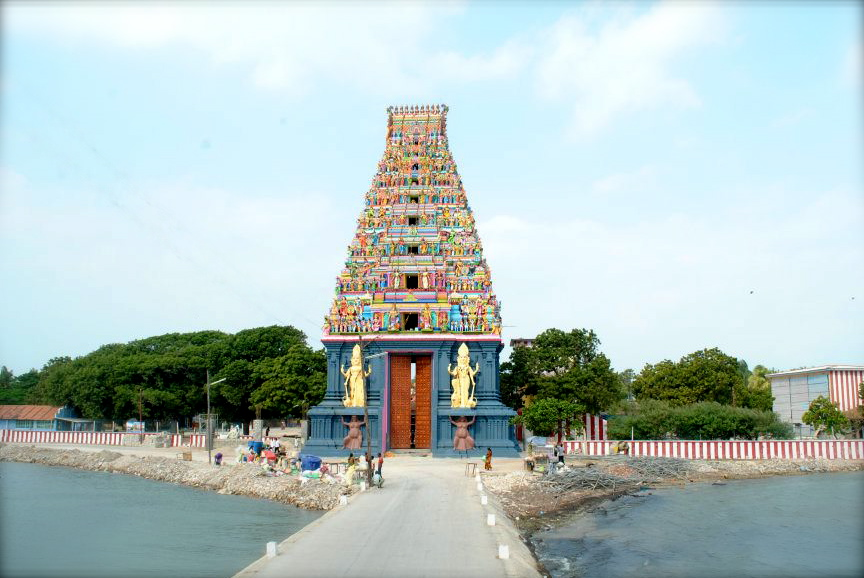 RajaRajaGopuram2012